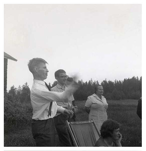 Photograph of Finnish writers at Perunkajärvi: Erno Paasilinna, Jorma Etto, Rauni Kivilinna and (sitting) Eila Etto.